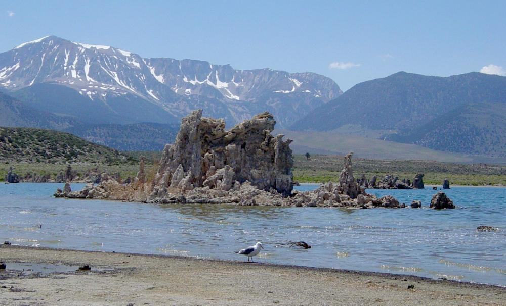 Tufa columns, with Mount Dana in the background. Mono Lake, Eastern Sierra, California